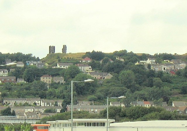 Morriston, Ruin on Cnap Llwyd